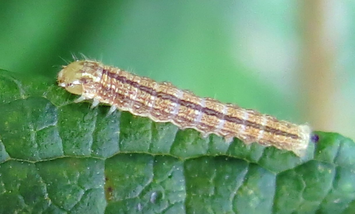 Three-lined Flower Moth Schinia trifascia larva, Wheatley, Ontario, Canada.